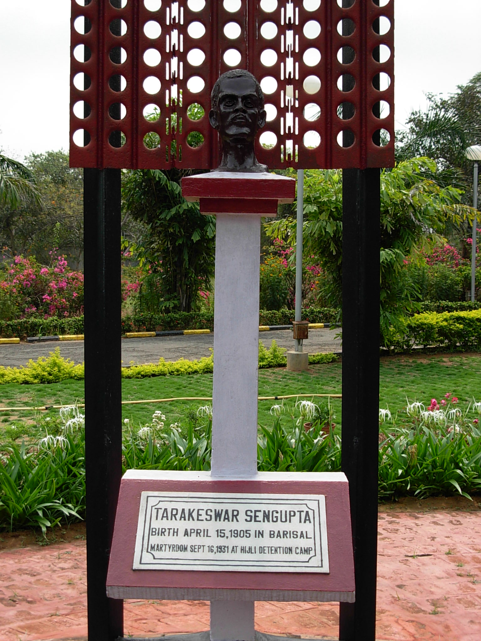 The memorial of Shaheed Tarakeswar Sengupta opposite Old Building of IIT Kharagpur